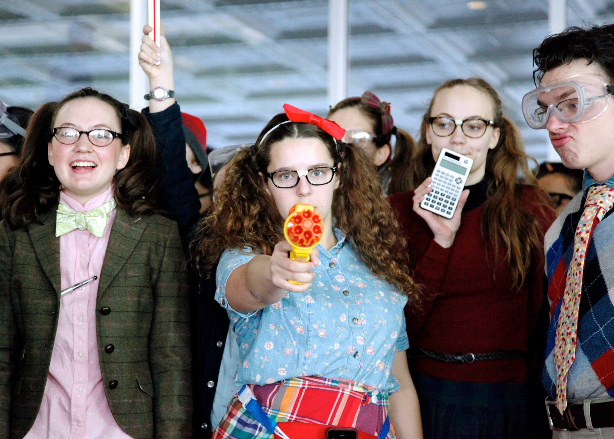 Nerd Walk 2015, Milstien Hall